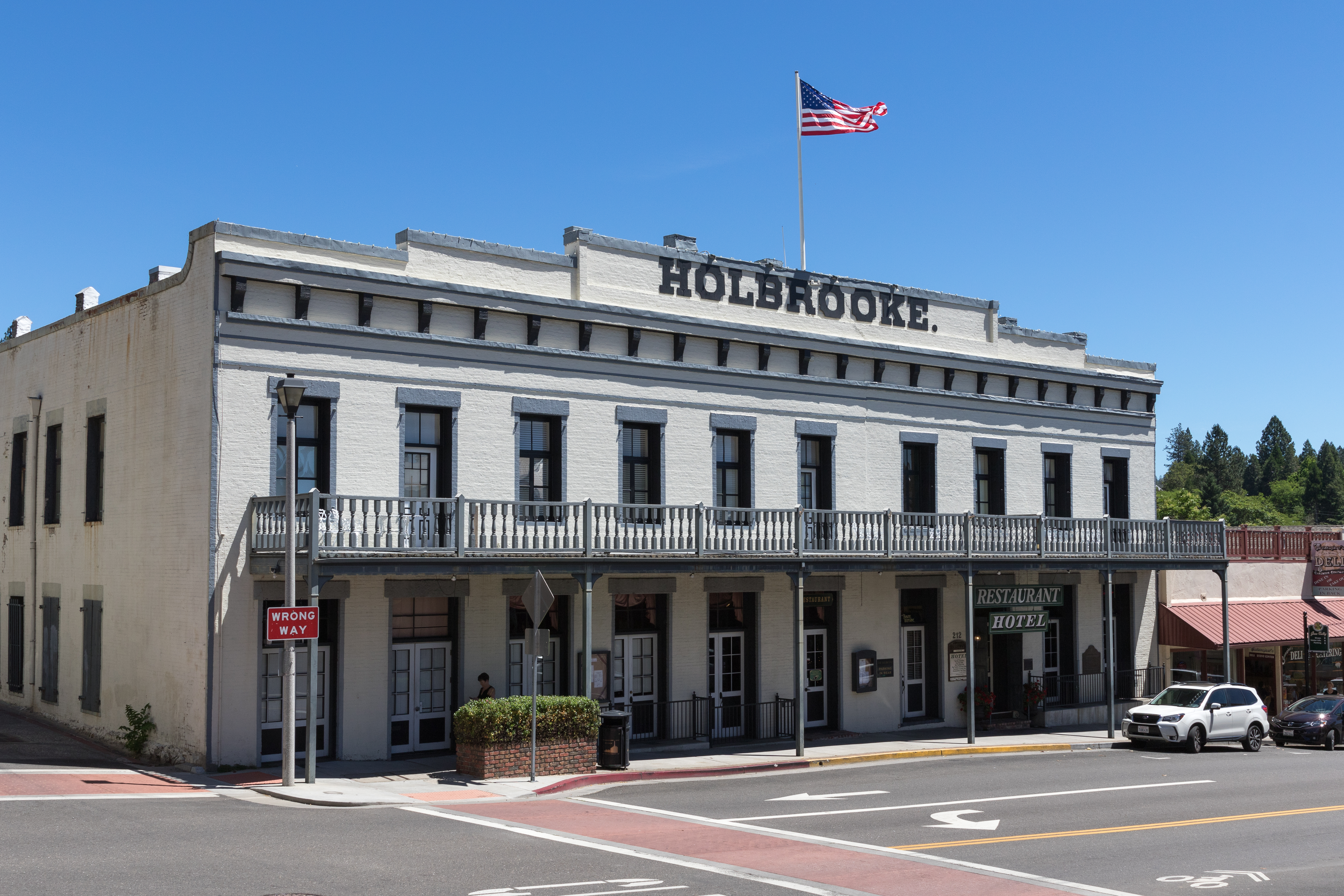 Holbrooke Hotel in Grass Valley, founded 1851, is California’s oldest hotel in continuous operation (California Registered Historical Landmark No. 914). The current structure dates back to the year 1862 and was built after a devastating fire.